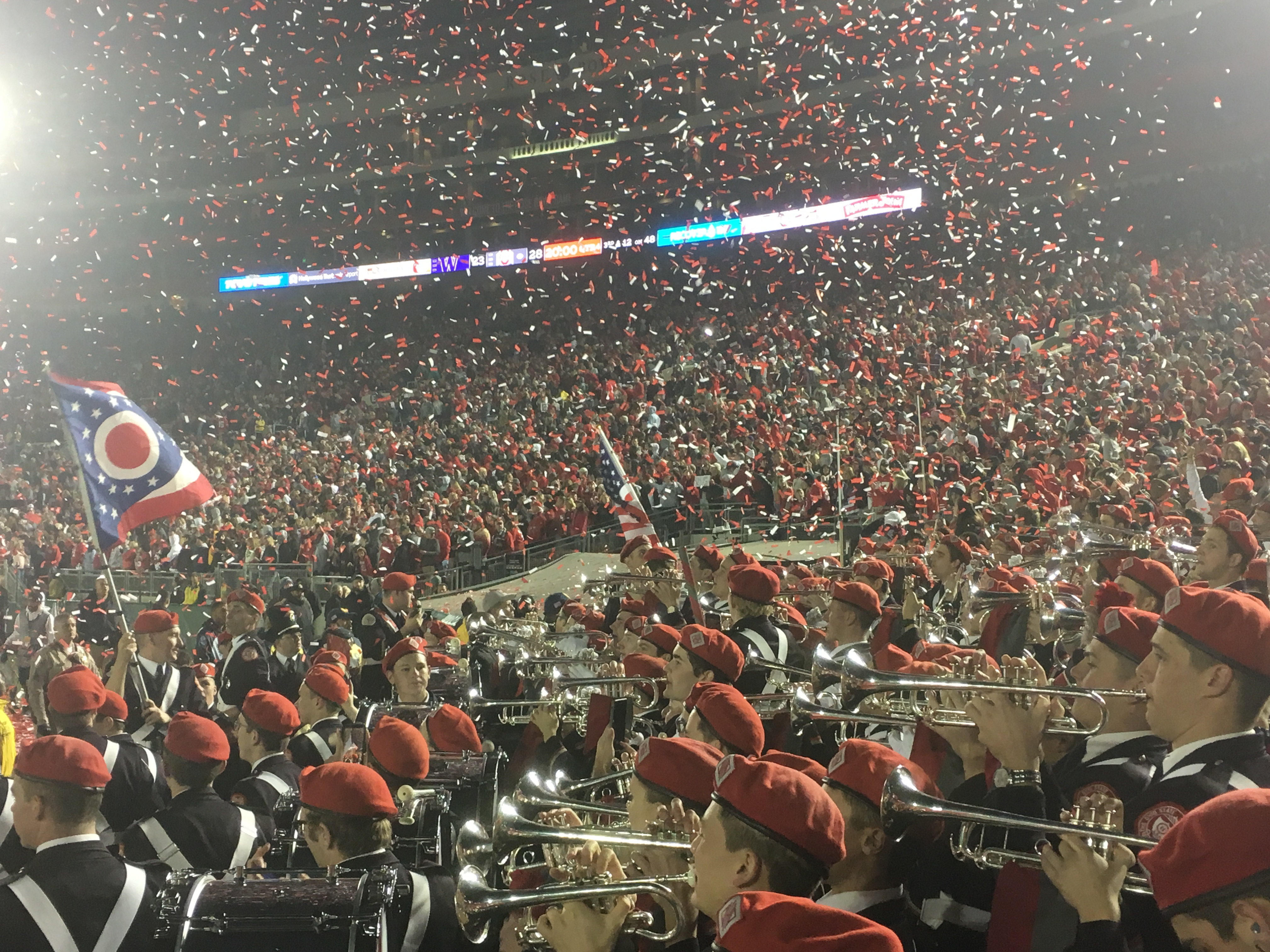 The Ohio State University Marching Band playing after their team's victory at the 2019 Rose Bowl. Photograph taken shortly after the end of the game.